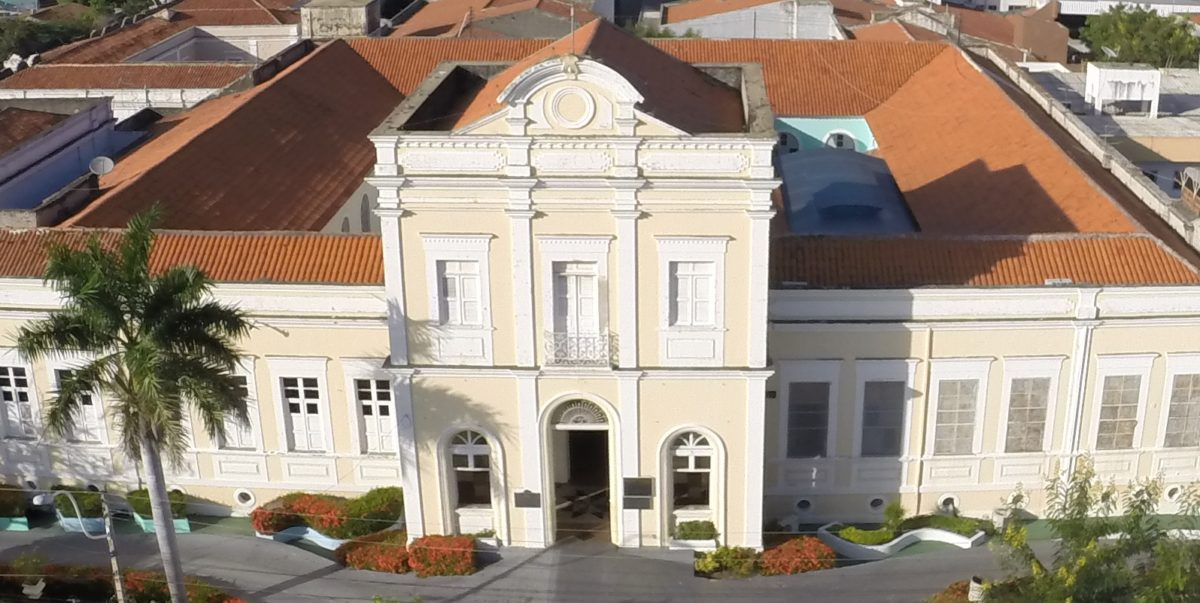 DCIM\108GOPRO